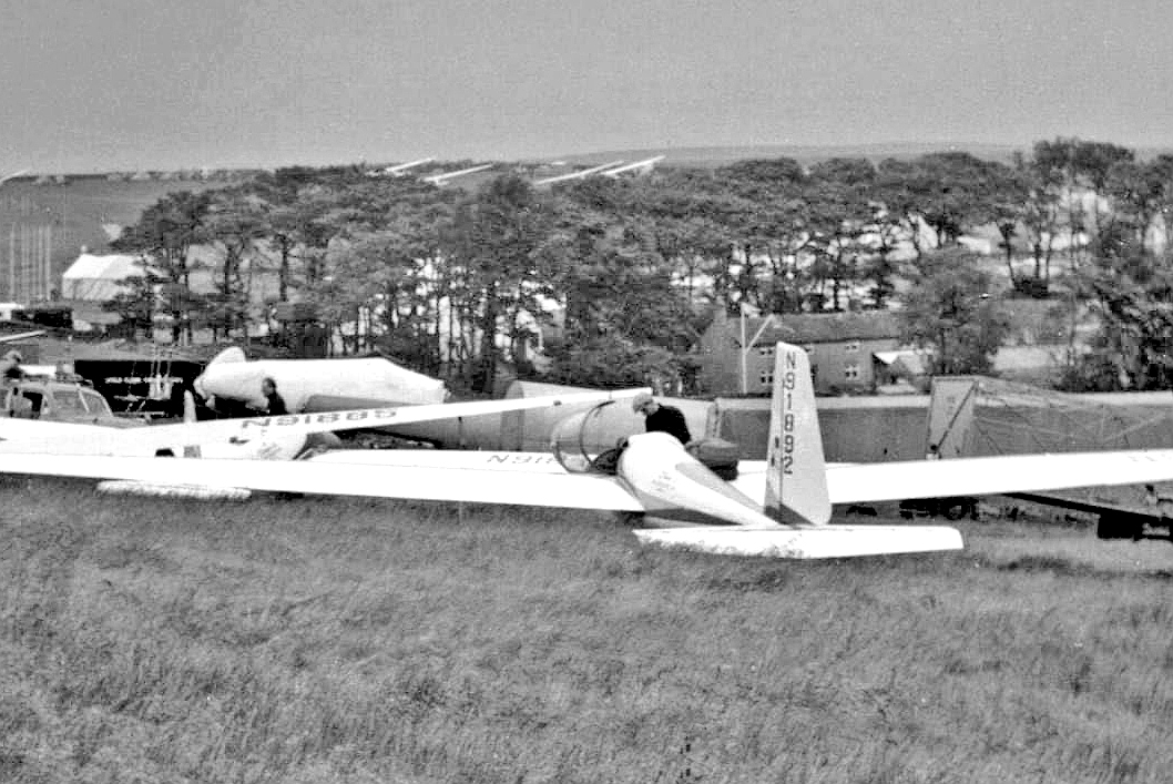 The sole Schweizer SGS 2-25 built, N91892, shown at Great Hucklow, Derbyshire, England during the 1954 World Gliding Championships.